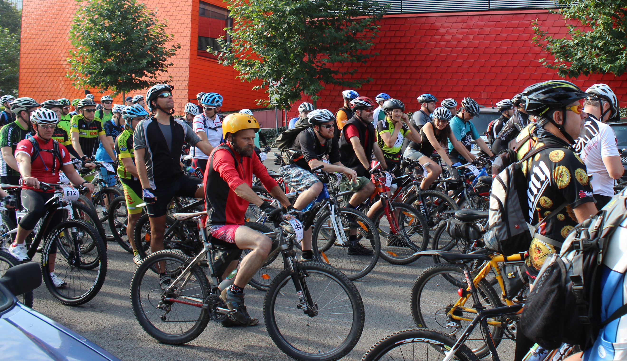 Czech Wikipedia Cyclo Team before start of "Pražská padesátka" event, Prague, Czech Republic.